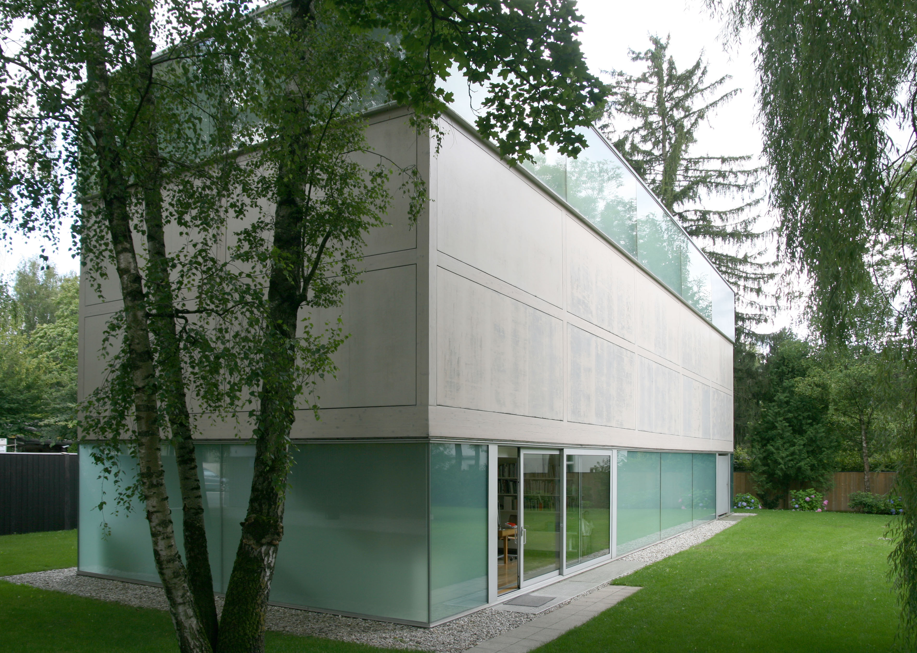 Goetz Collection building, Munich, Germany. Architects: Herzog & de Meuron